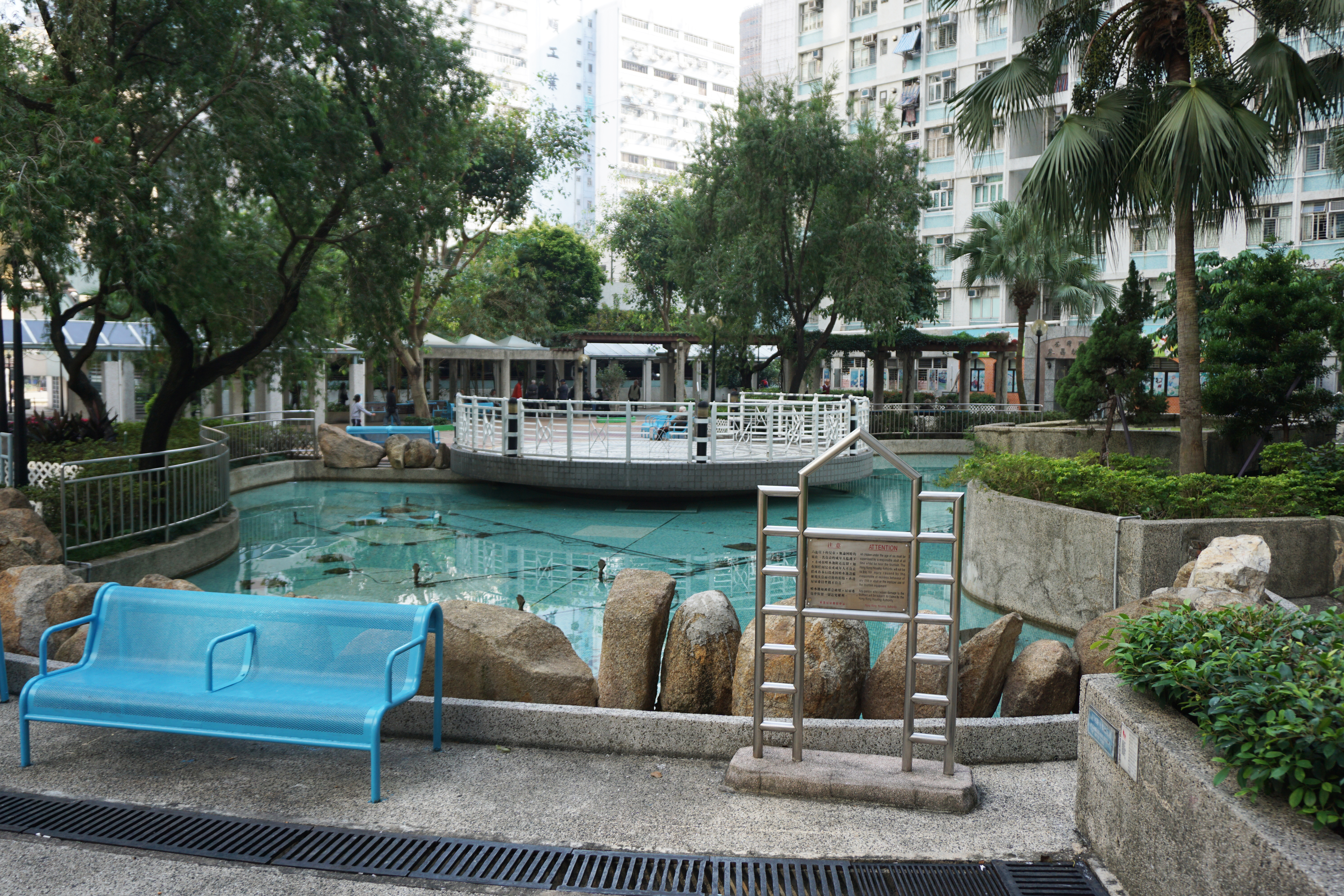 Kwai Hing Estate in Kwai Hing, Hong Kong.